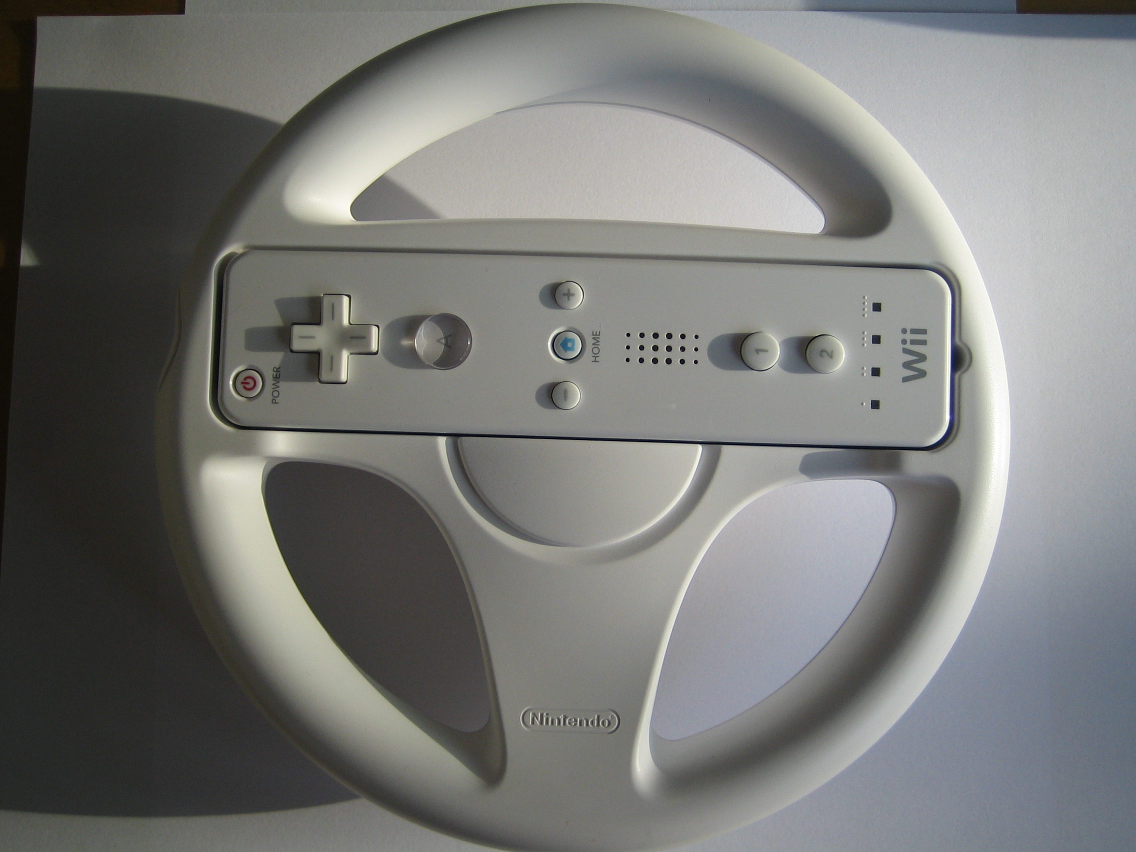 The Wii Wheel is a steering wheel for the Nintendo Wii.